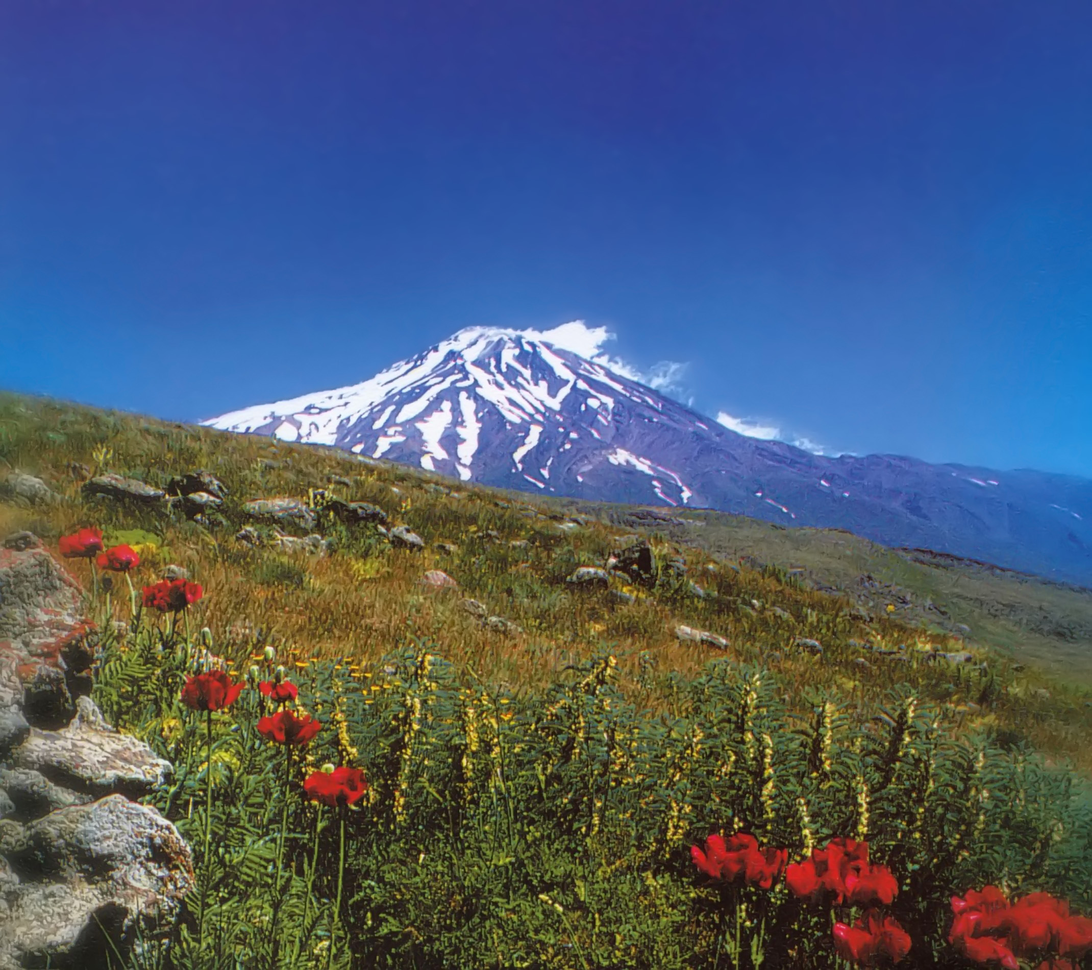 Damavand mountain. Author: Arad Mojtahedi